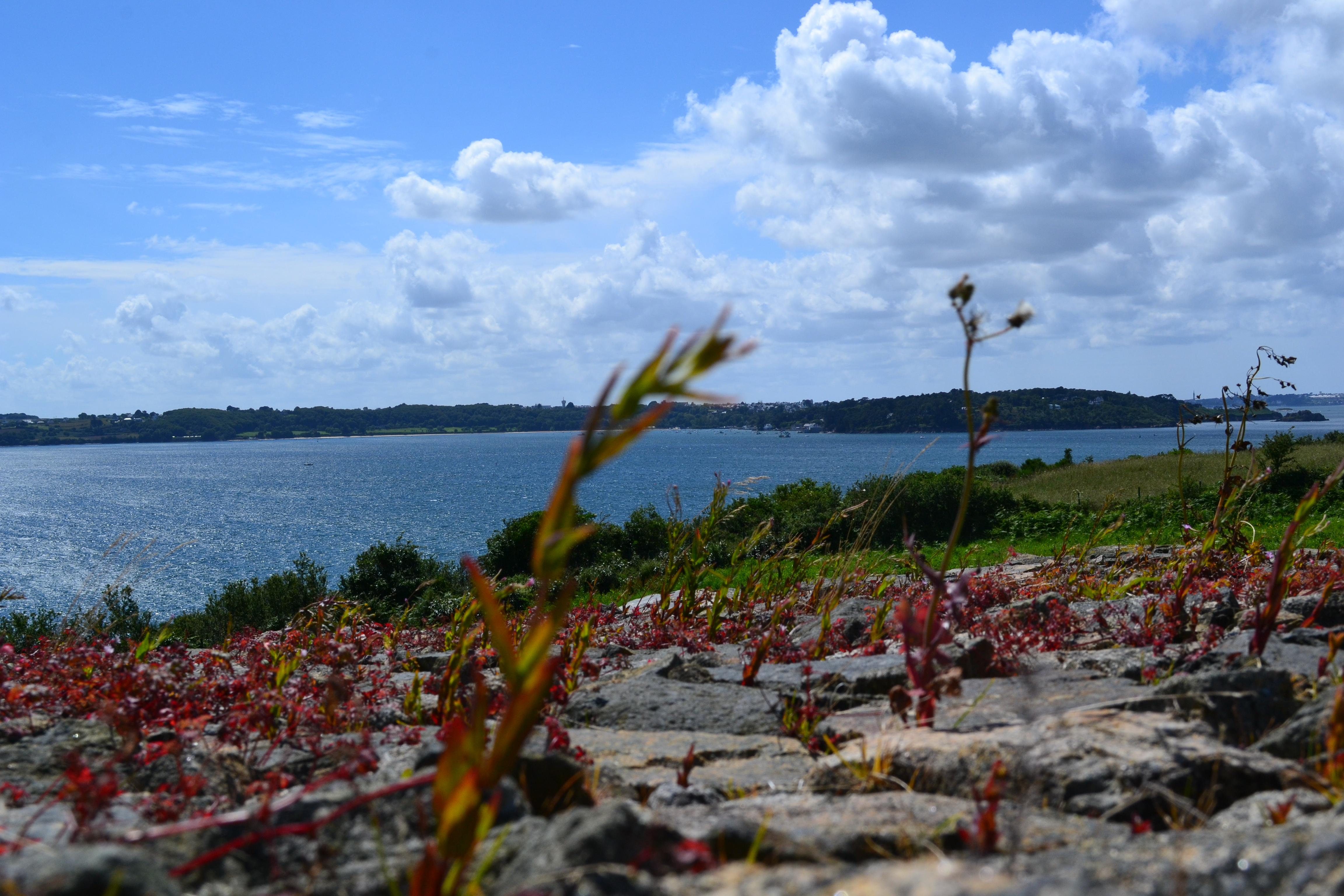 Bay of Morlaix with more pricisely Carantec from the Cairn of Barnenez